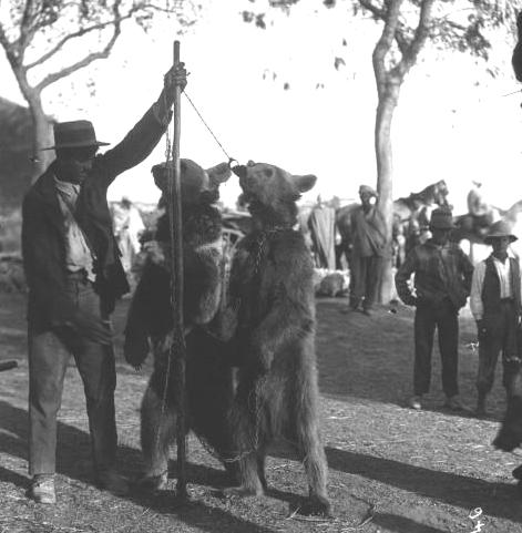 A tame bear shown in Camarga (Occitania).